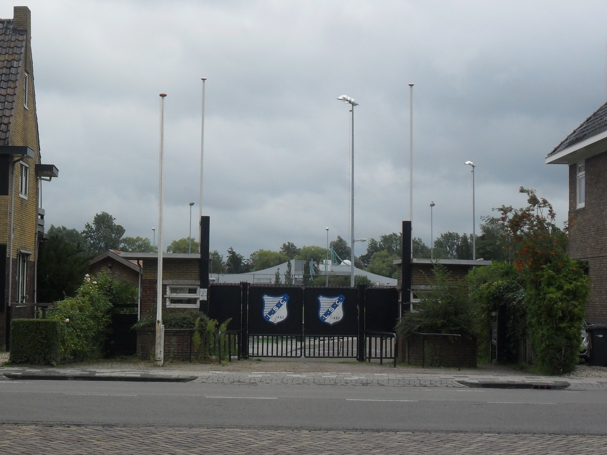 Entrance of Sportpark Leeuwarderweg, Sneek